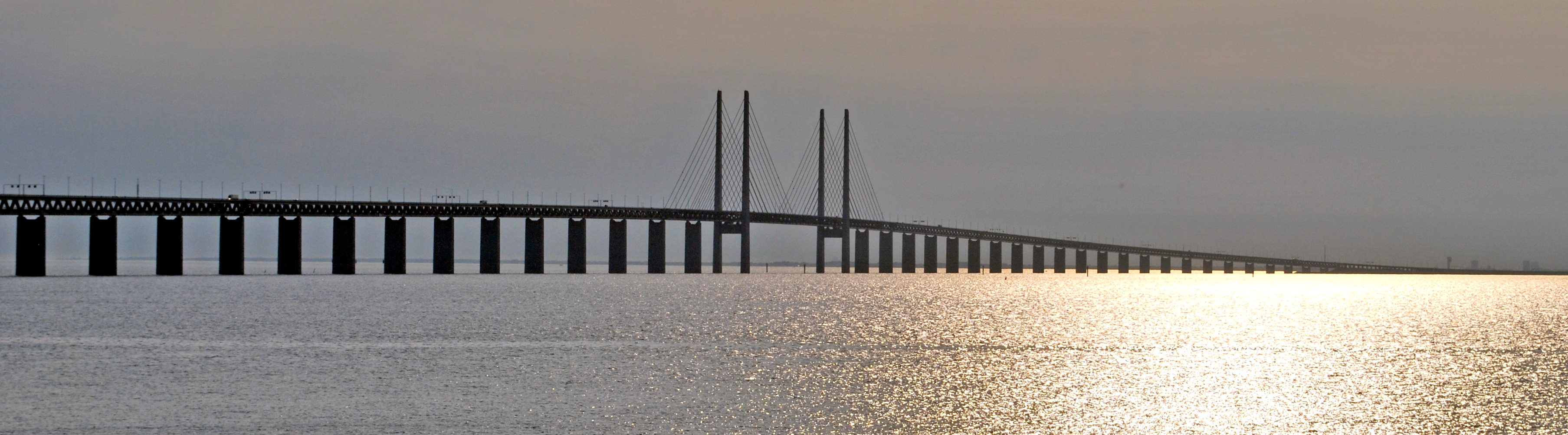 Derived from File:Øresund Bridge - Øresund.jpg